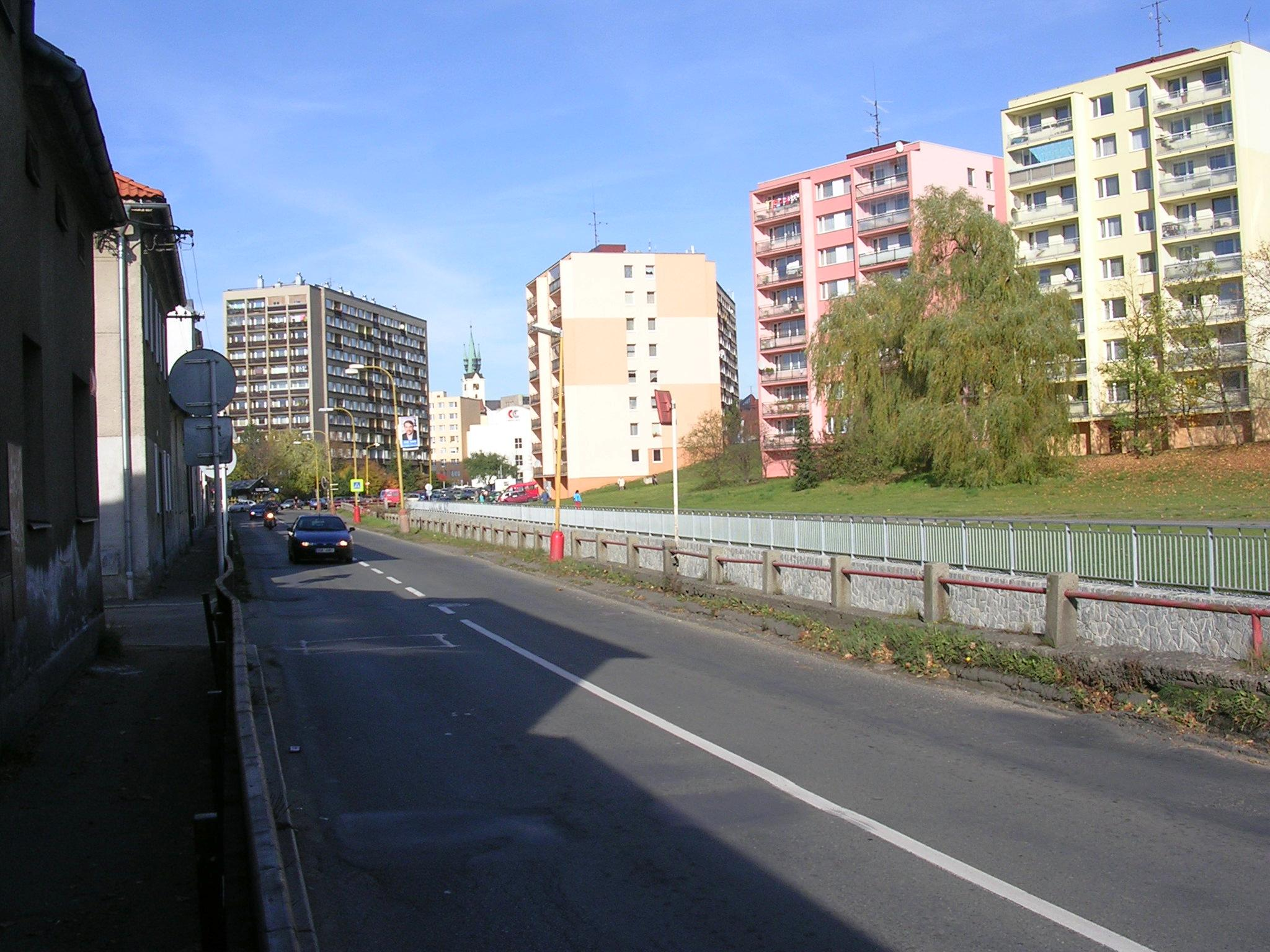 Příbram.